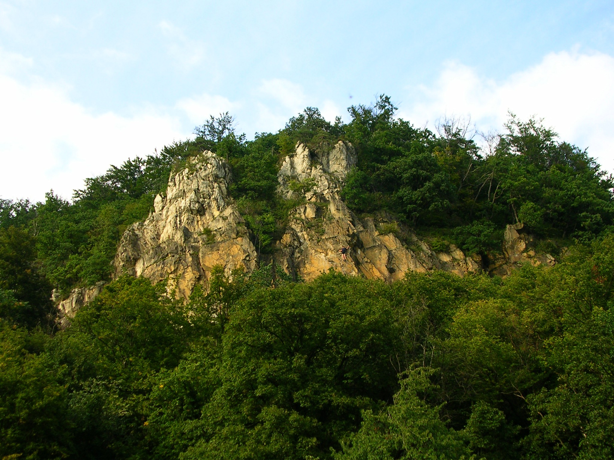 Calcarious rocks, much frequented by climbers